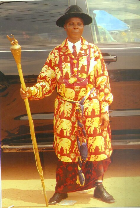 This is image is taken on a traditional occasion of my village. This is an image of Cultural Fashion or Adornment from Nigeria